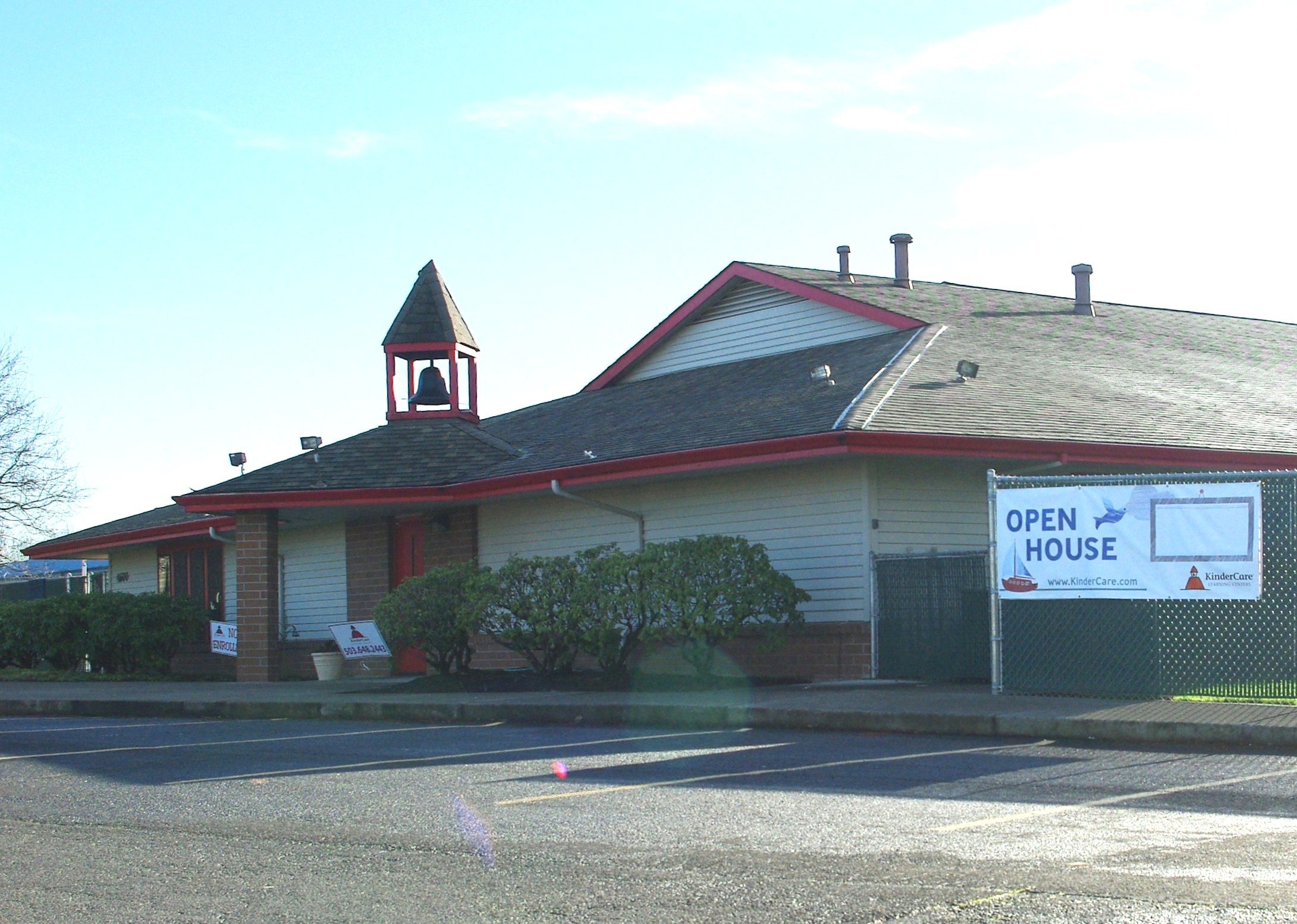 KinderCare daycare school on Cornell Road in Hillsboro, Oregon.